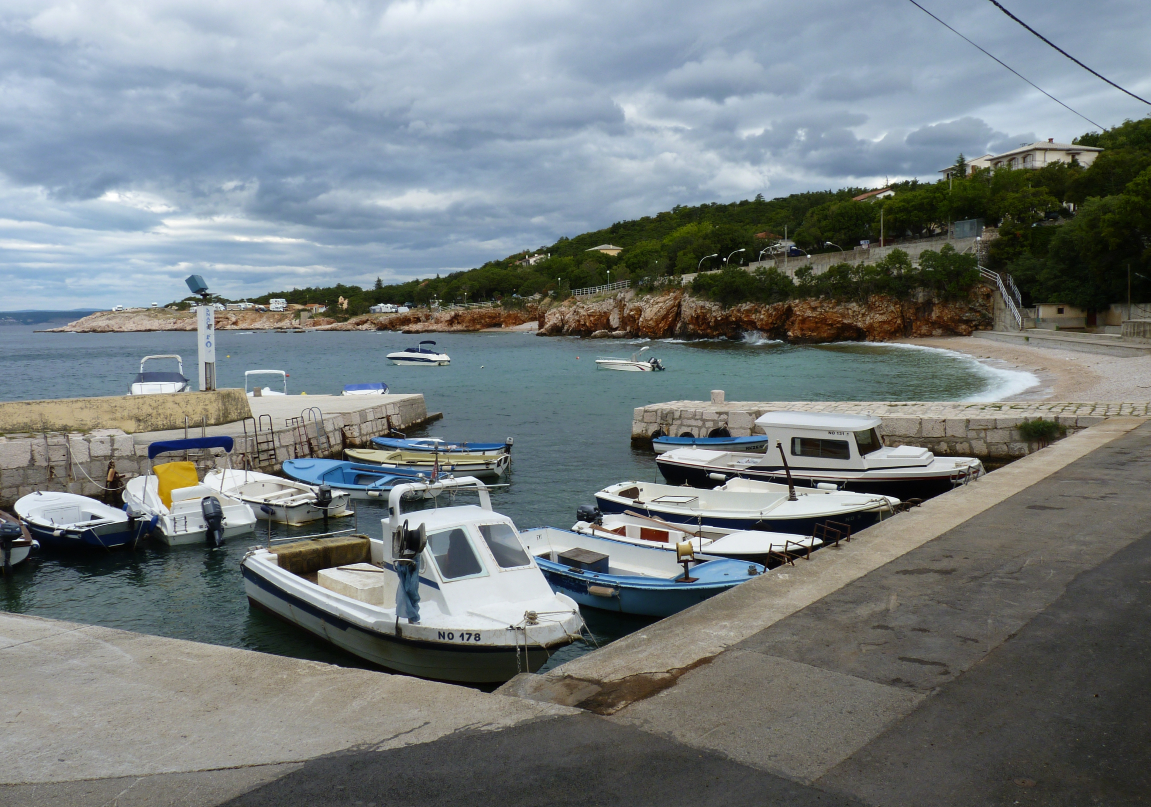 Povile, Primorje-Gorski Kotar County, Croatia